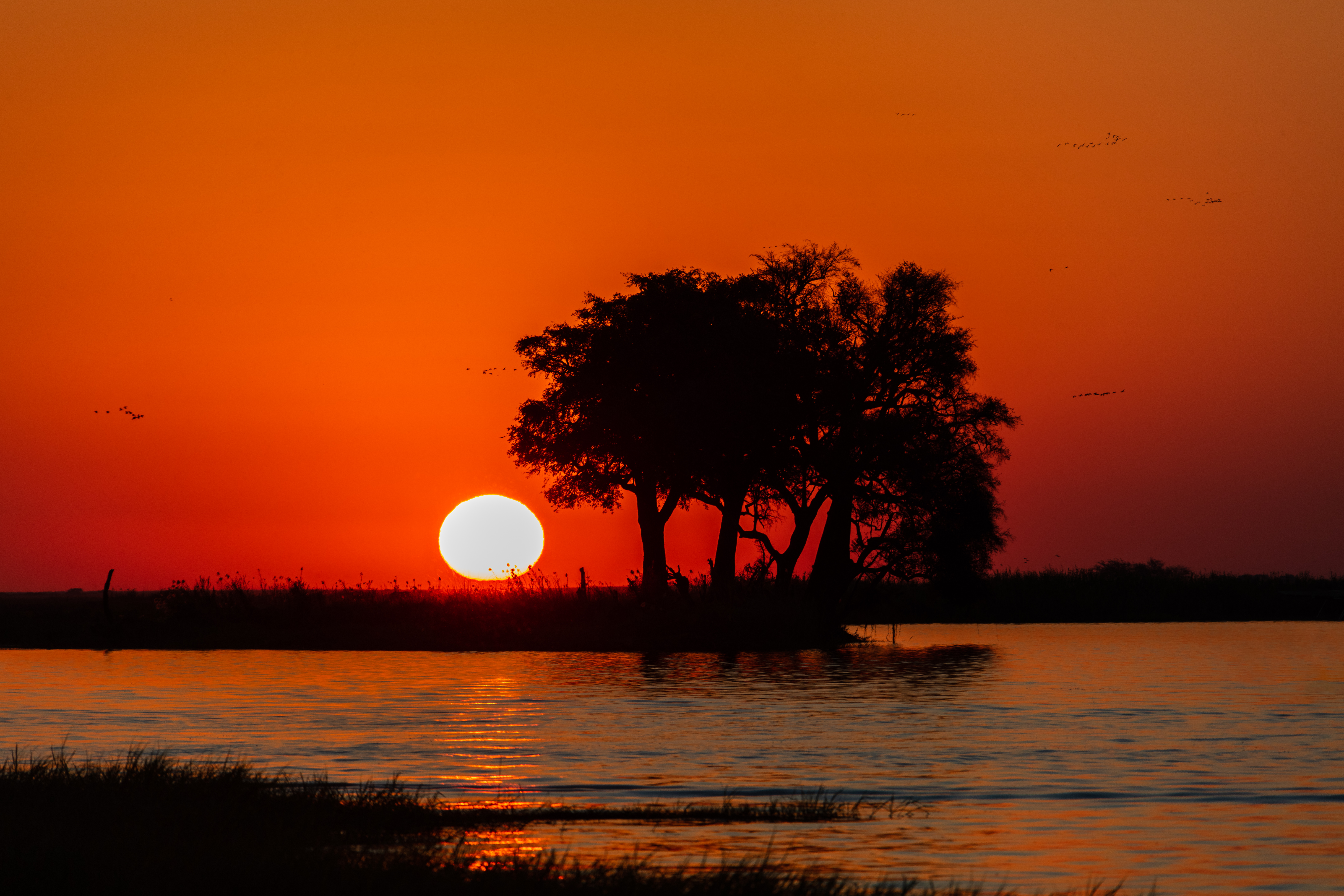 Sunset over the Chobe River, Chobe National Park, Botswana